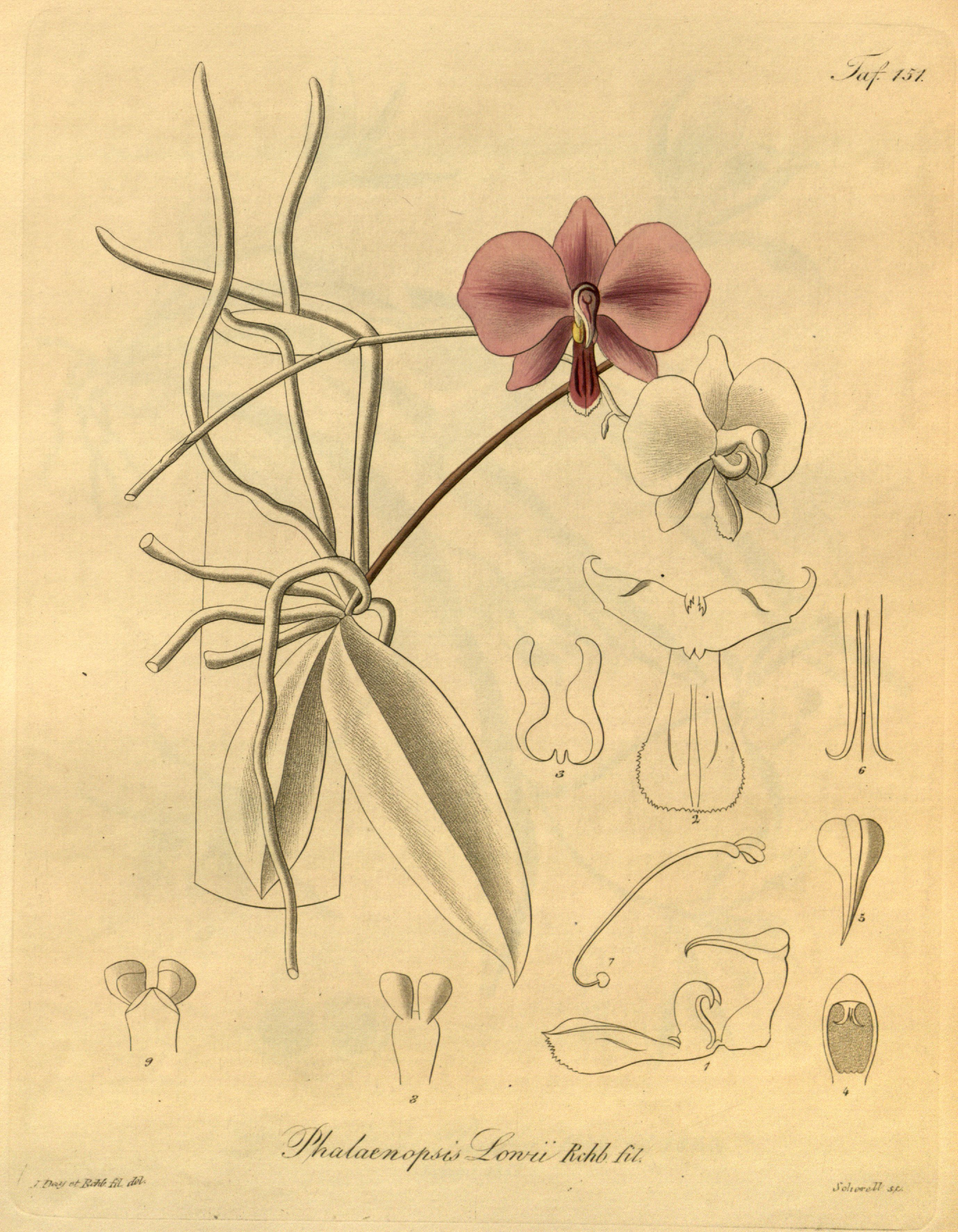 Illustration of Phalaenopsis lowii